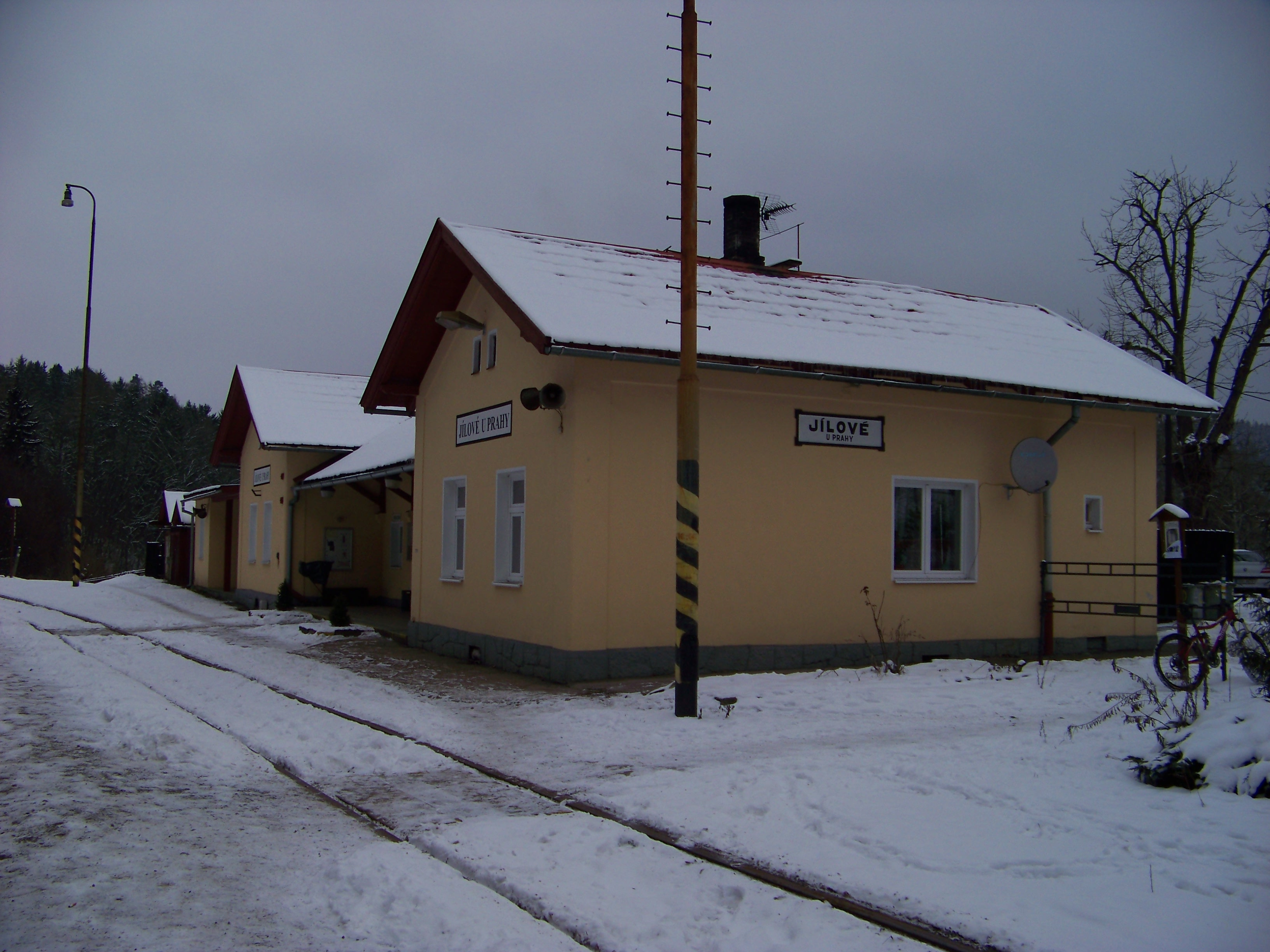 Jílové u Prahy-Kabáty, Prague-West District, Central Bohemian Region, Czech Republic. Train station Jílové u Prahy.